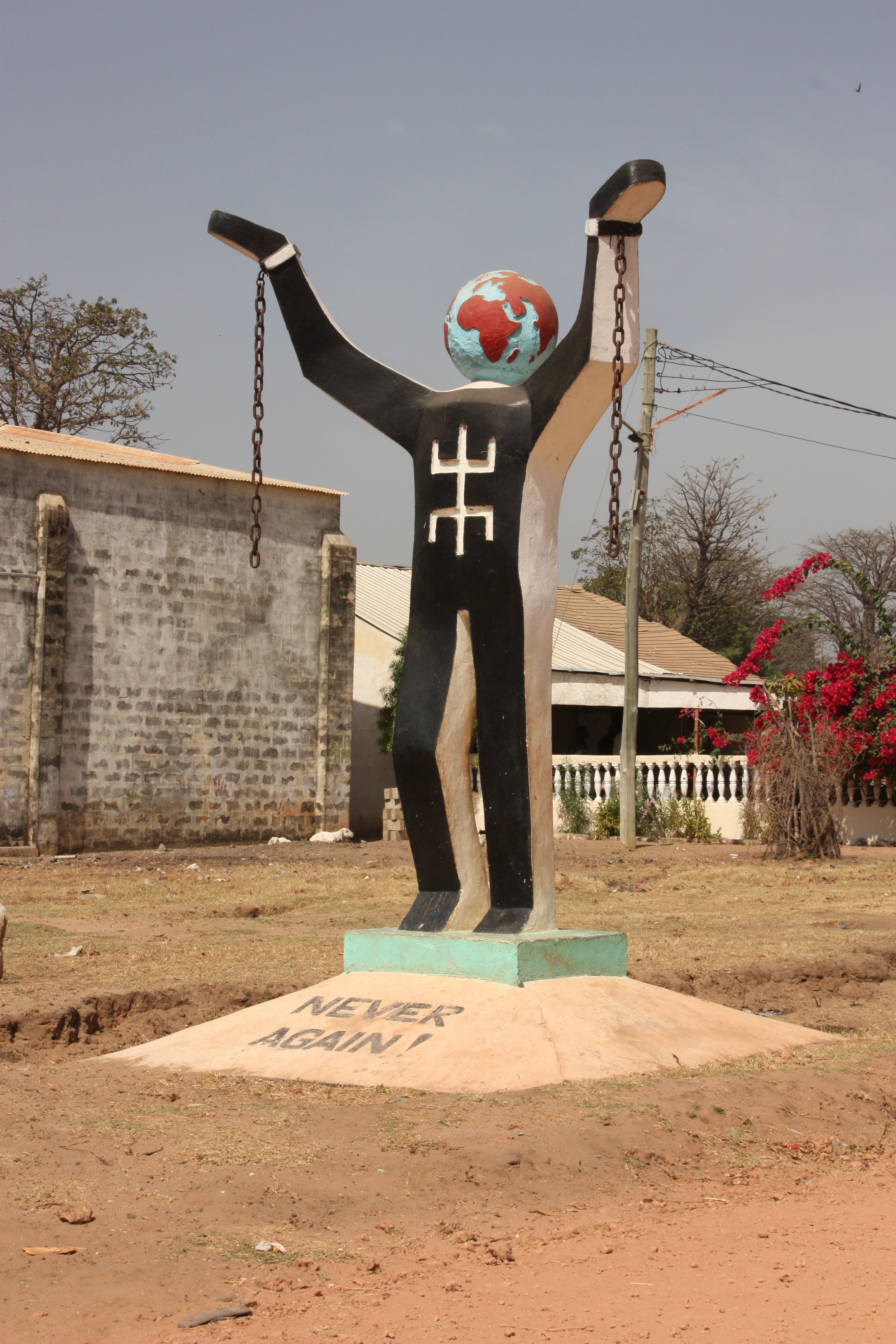 Never Again-statue in Albreda/Juffureh (The Gambia)